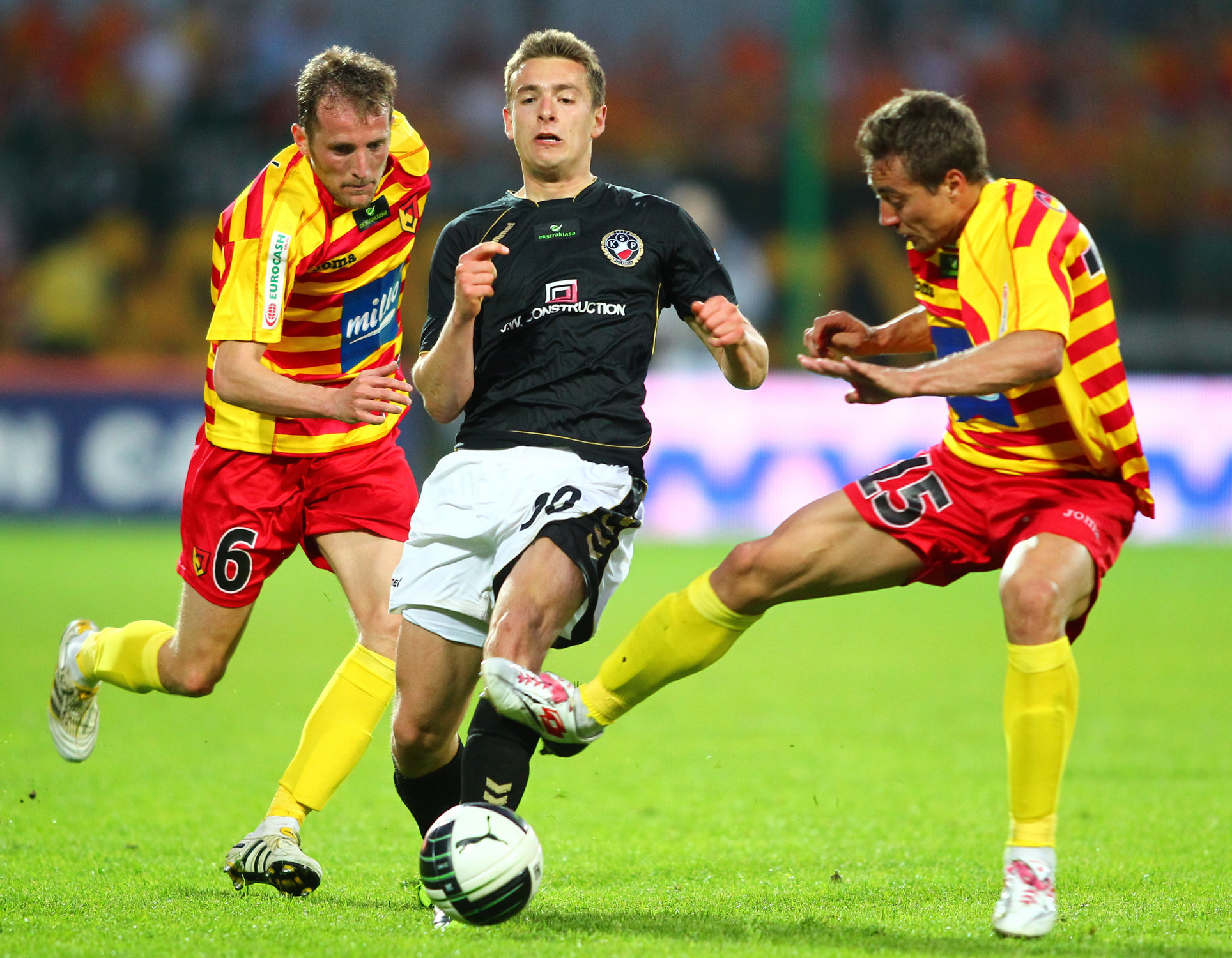 Artur Sobiech of KSP Polonia Warszawa (centre) versus Luka Pejović (left) and Thiago Rangel Cionek (right) of Jagiellonia Białystok in an Ekstraklasa match. Thiago Rangel Cionek gets the red card for his high footed challenge in this scene.